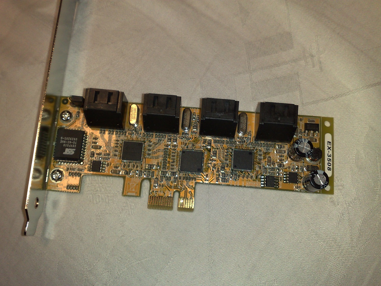 An eight-port ExSys EX-3508 SATA 2.0 (3 Gbit/s) PCI Express ×1 expansion card. It is based on the Silicon Image SIL3132 chipset (square chip in the middle), and has two built-in SATA port multipliers (square chips to the left and right of SIL3132) that "split" SIL3132's two SATA ports into a total of eight ports.